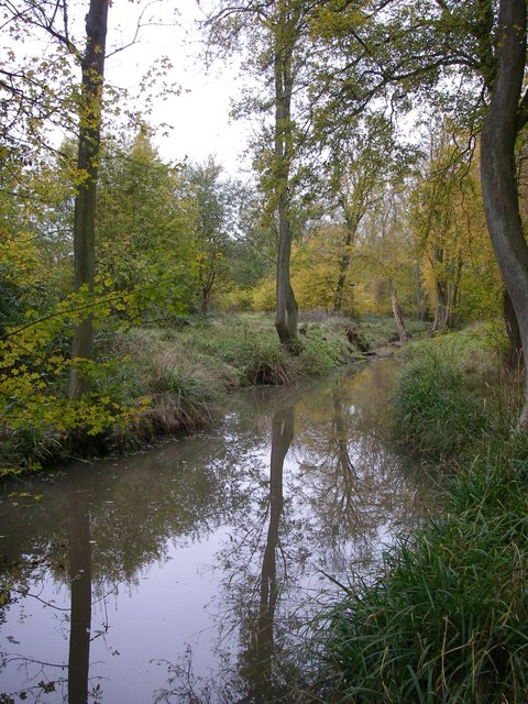 The Long pond One of 3 ponds in this large ancient wood, this one used by Red deer as a wallow.